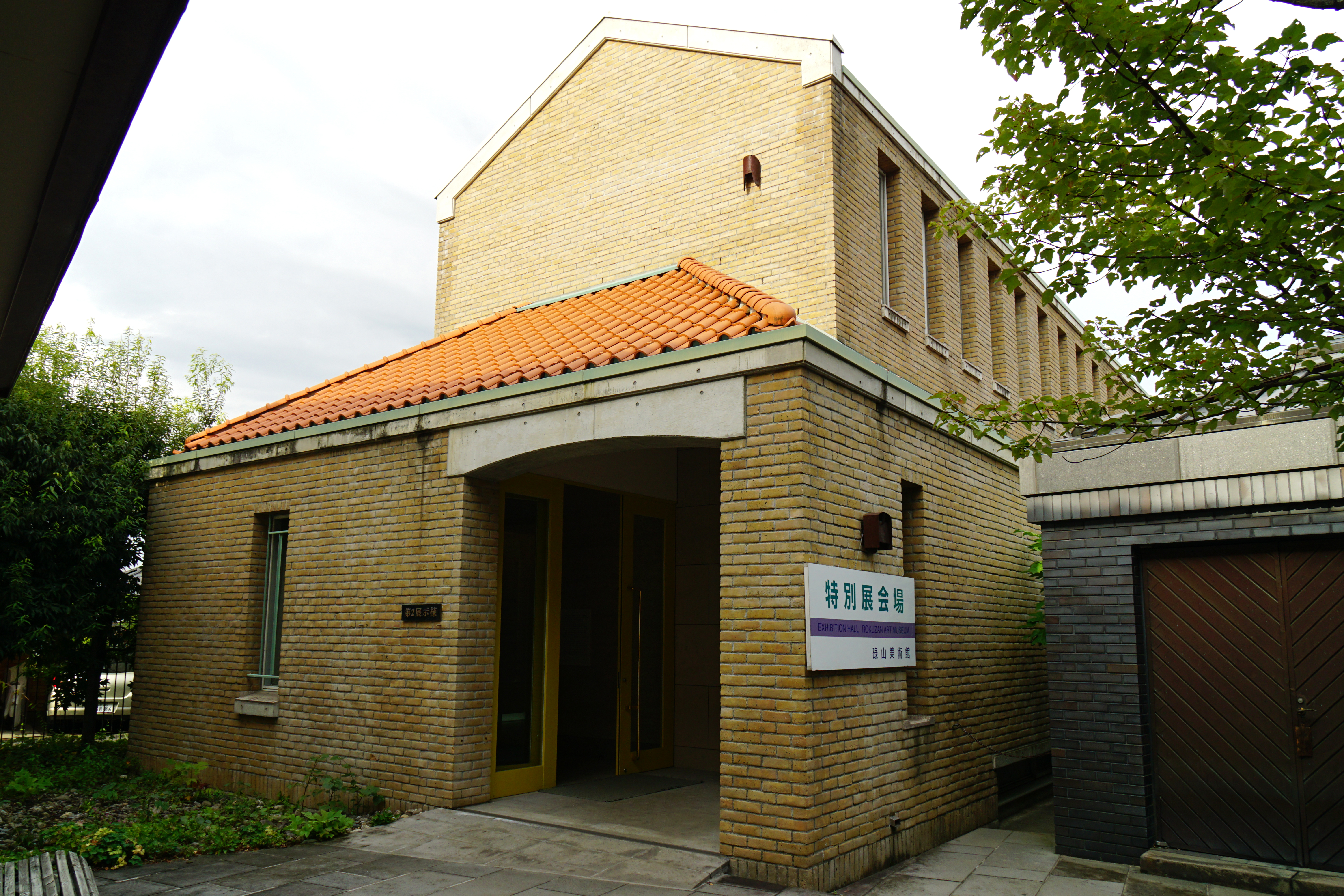 Rokuzan Art Museum in Azumino, Nagano prefecture, Japan